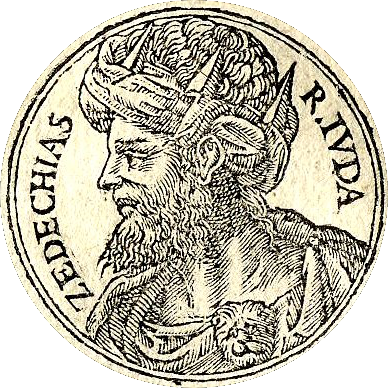 Zedekiah